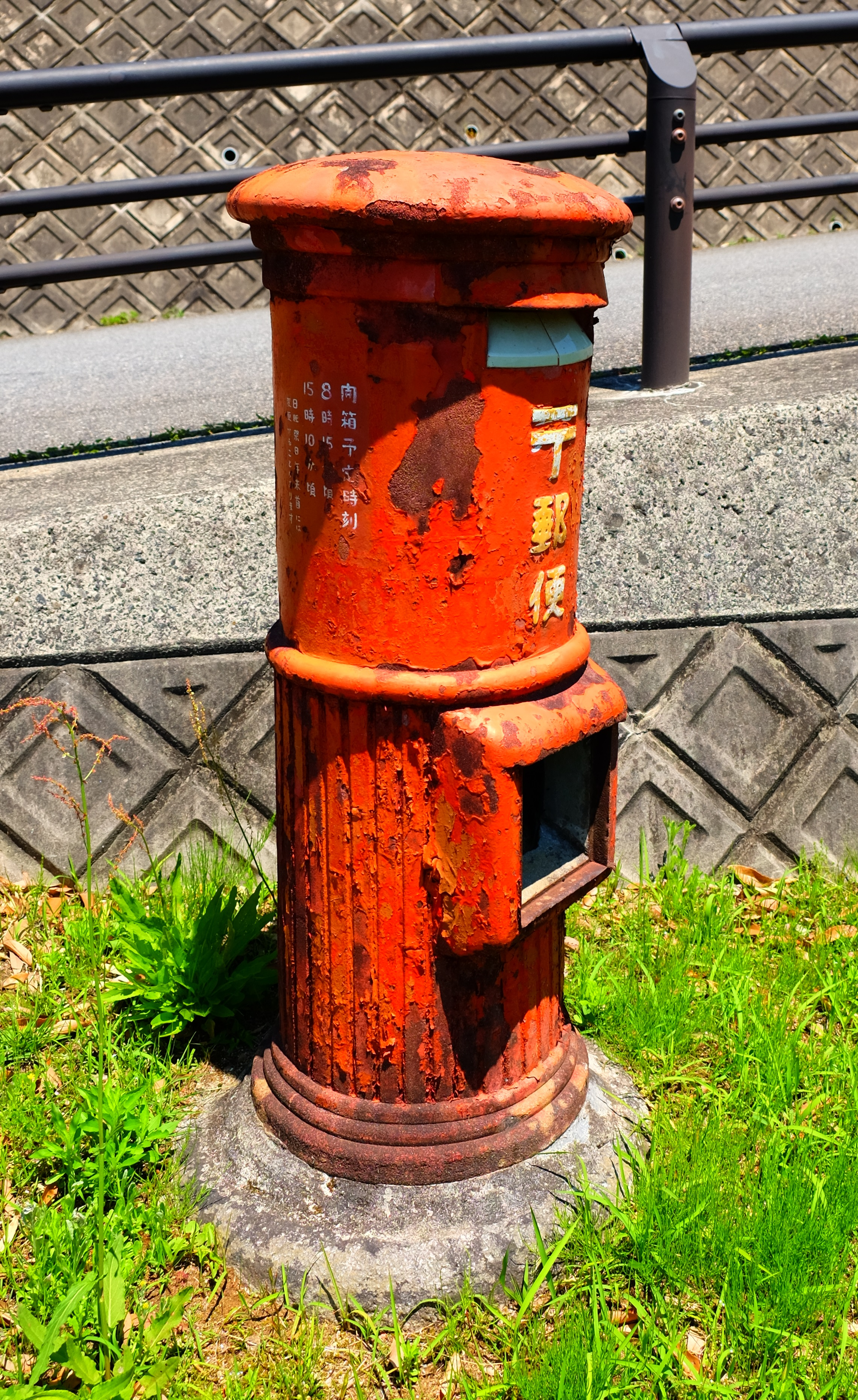 The round shape postbox which was made with concrete